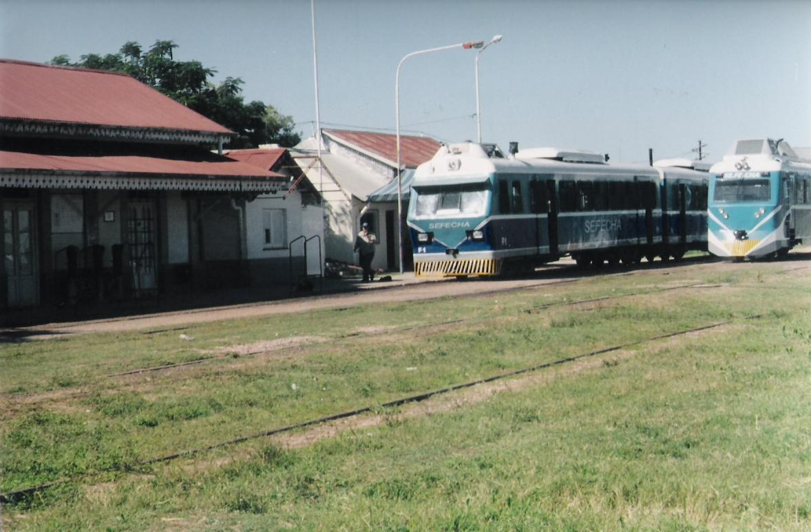 Cacuí train station in Fontana, Chaco, Argentina. Railcars stopped are a Ferrostaal (left) and "Chaco 1" (right), rolling stock of Servicios Ferroviarios del Chaco (SEFECHA), that operated the line by then.